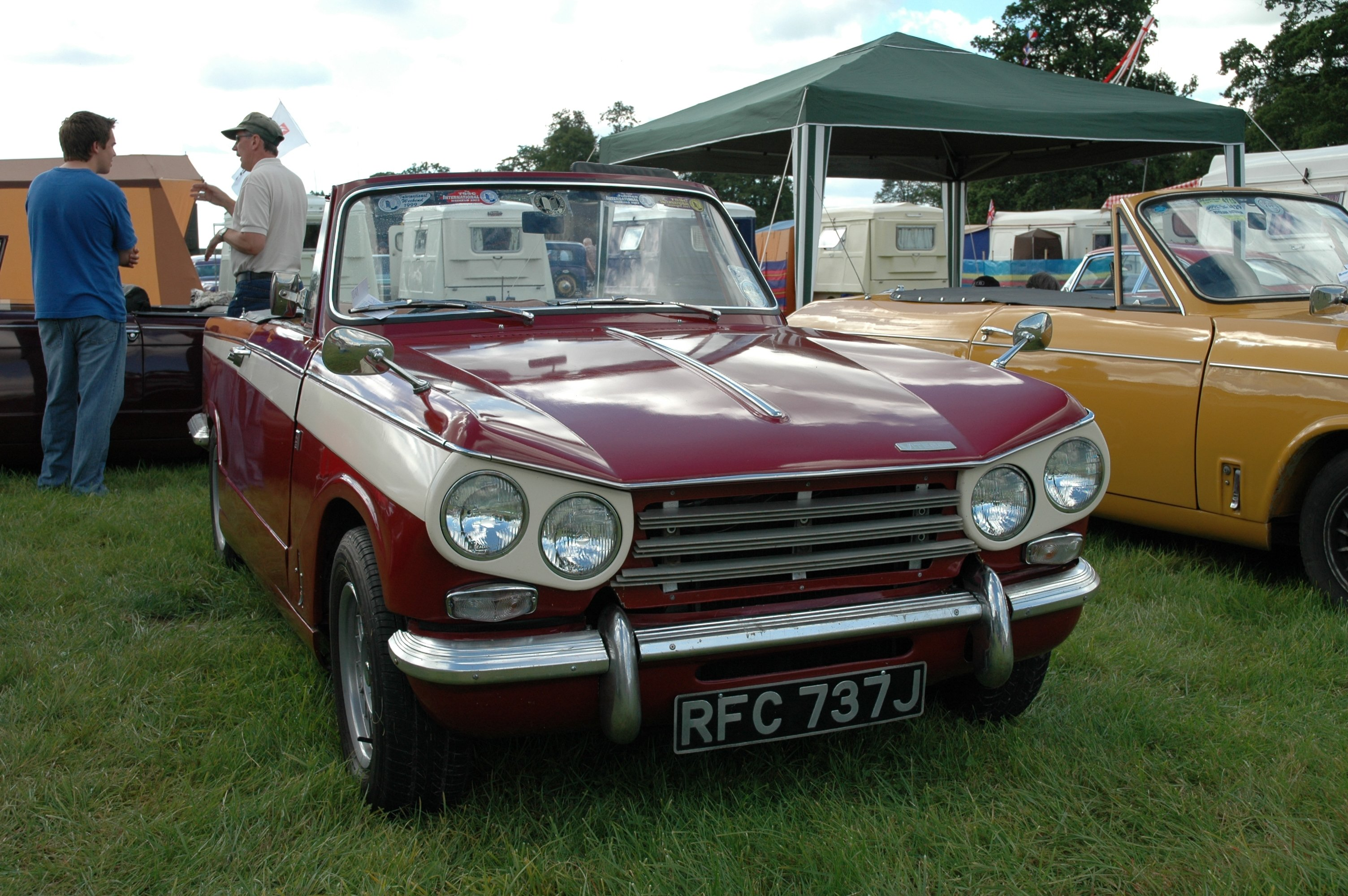 A 1970 Triumph Vitesse Mk.2 Convertible, photographed at the Hampshire Pageant of Motoring, England. (Side 'flash' is non-original on the Mk.2).